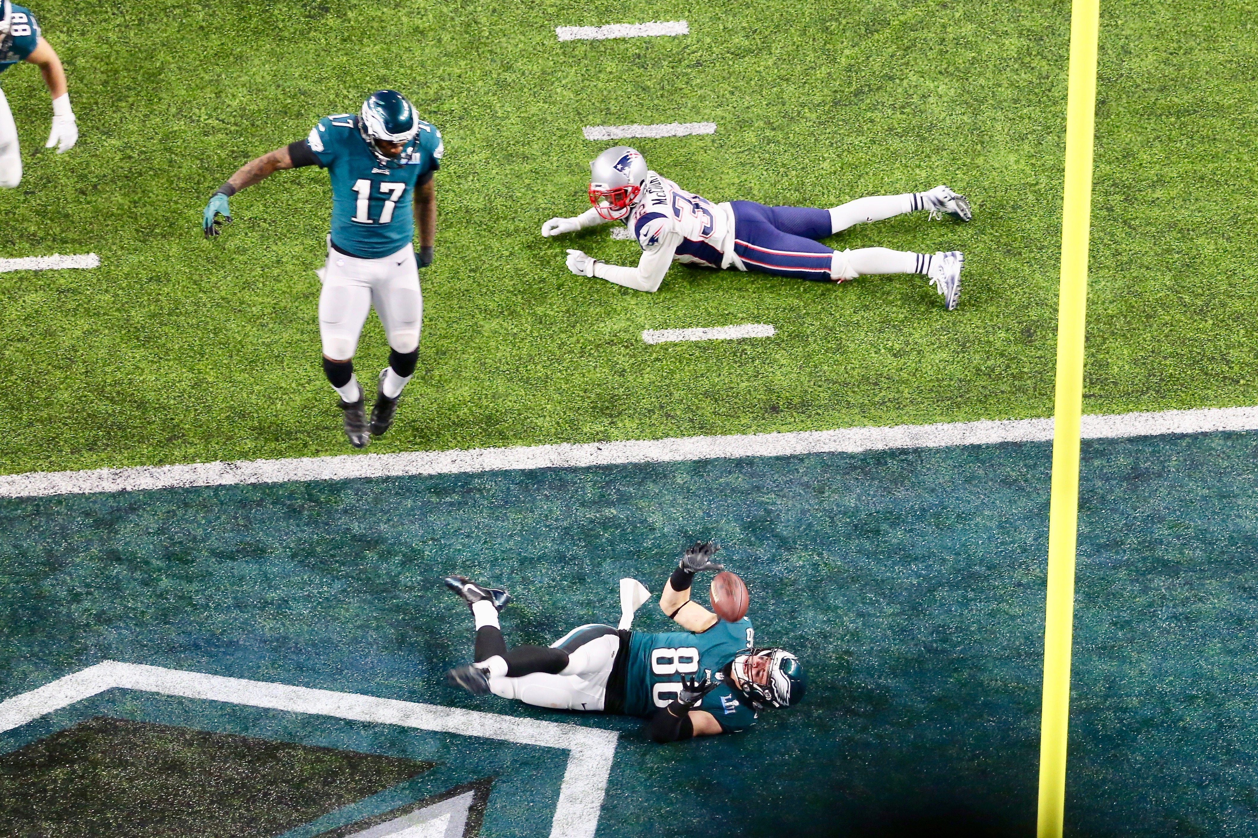 Zach Ertz of the Philadelphia Eagles struggles to maintain possession of the football after scoring the game-winning touchdown in Super Bowl LII (Brian Allen/VOA)